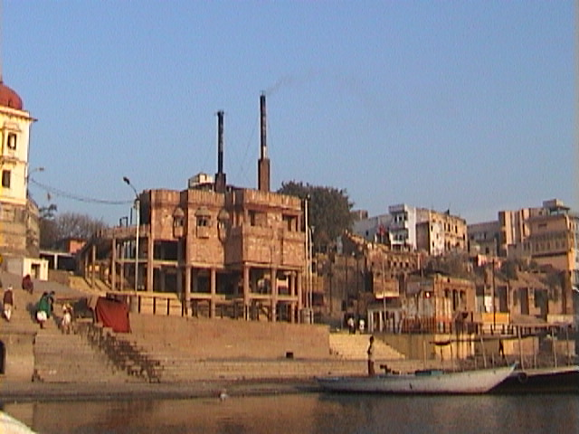 See Varanasi Development Cooperation Handbook/Stories/Responsible Development - Varanasi The Varanasi Heritage Dossier Kautilya Society Play media Vrinda Dar - How we got involved in heritage protection of Varanasi